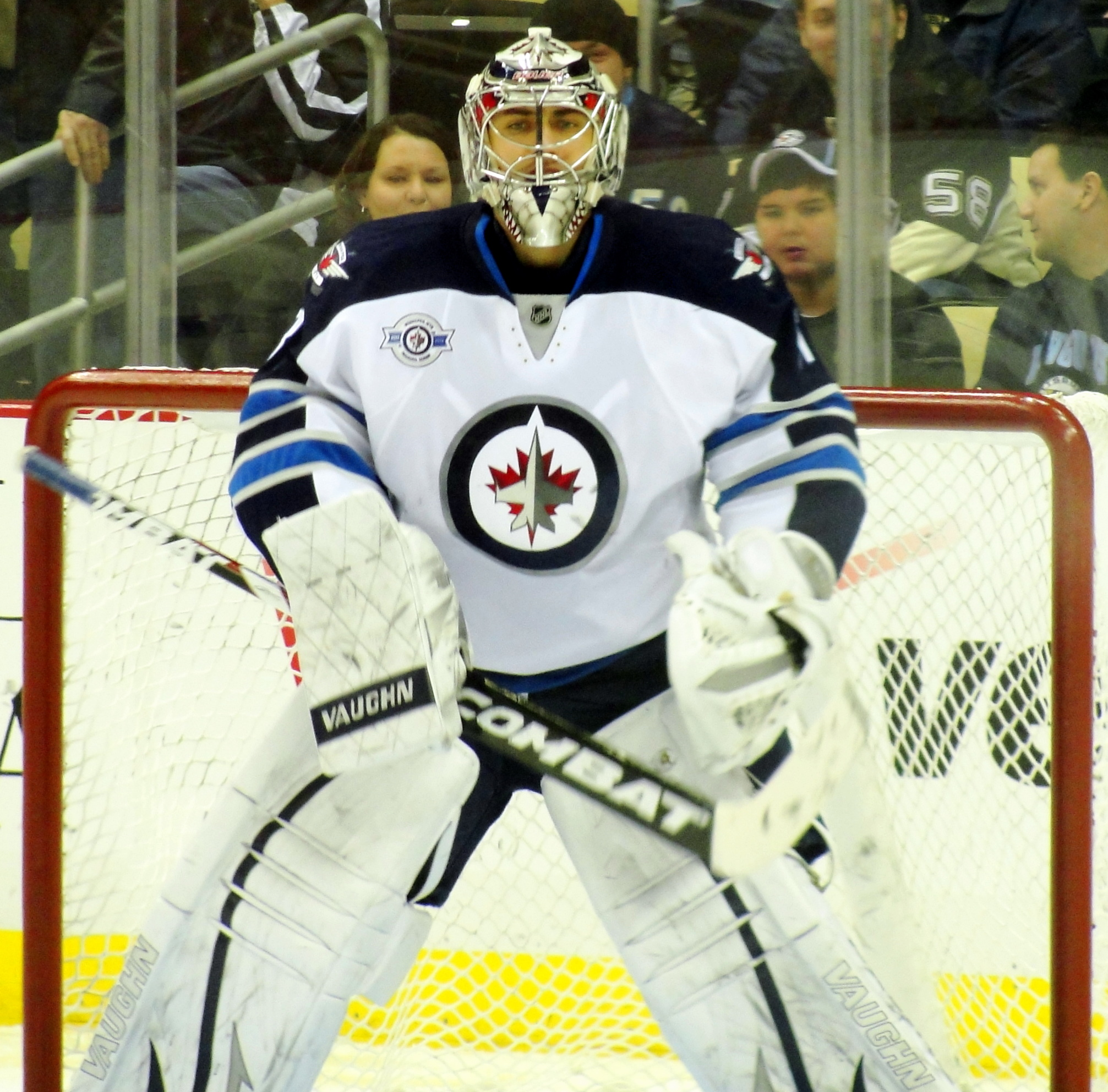 Ondřej Pavelec of the Winnepeg Jets during a game against the Pittsburgh Penguins, February 11, 2012 at Consol Energy Center in Pittsburgh, PA.